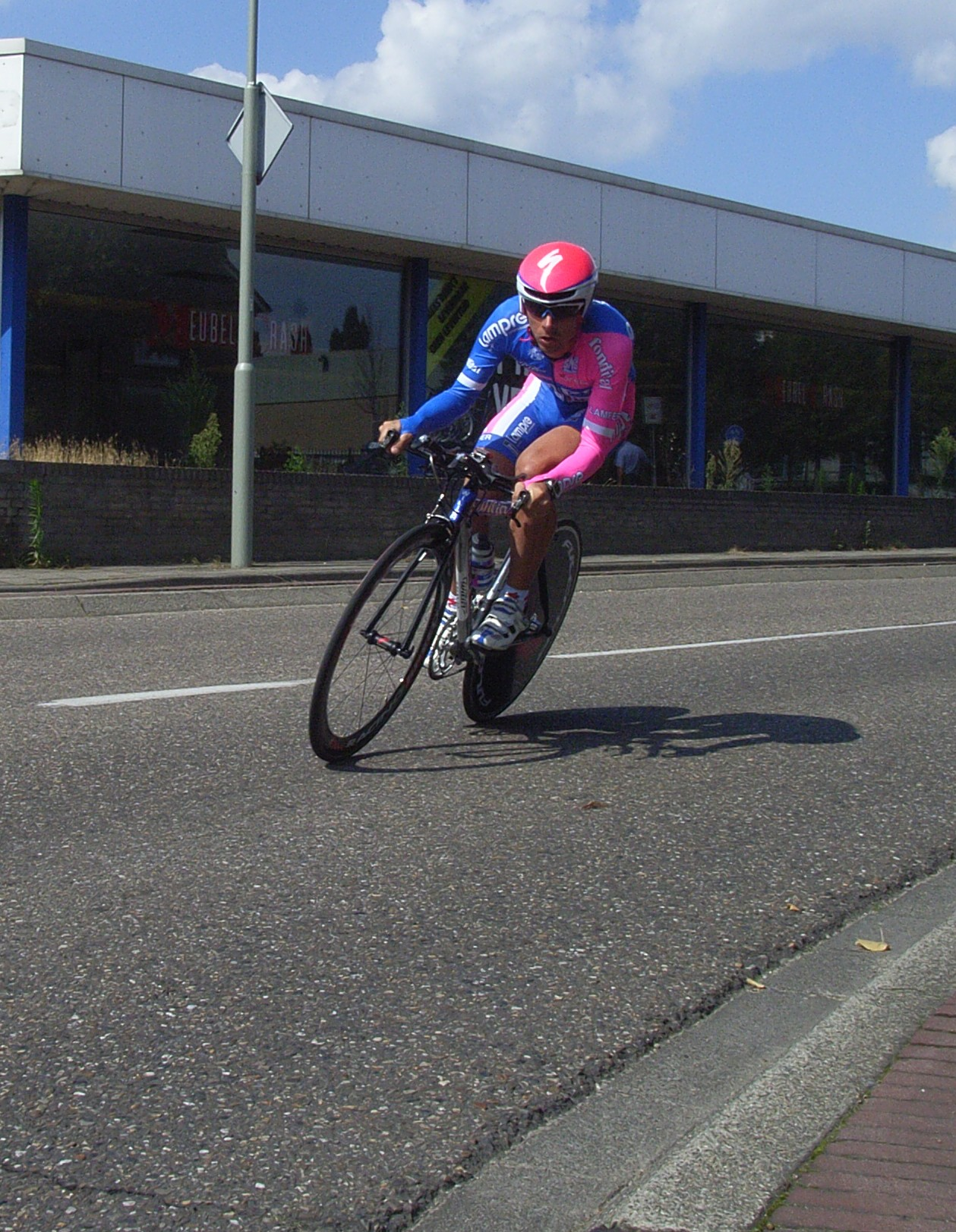 Cyclist Paolo Bossoni in the Eneco Tour 2007